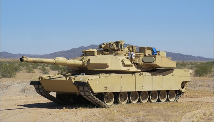 The USMC M1A1 Trophy Technology Demonstrator (TD) is part of the US Army Ex APS program. This project will deliver a first increment hard-kill APS and enable crews to determine hostile fire point-of-origin. In 2017, the Trophy Active Protection System was installed and tested on a USMC M1A1; this effort has informed requirements, set the conditions for a future program of record, and contributed to performance characterization of the system with the Army.